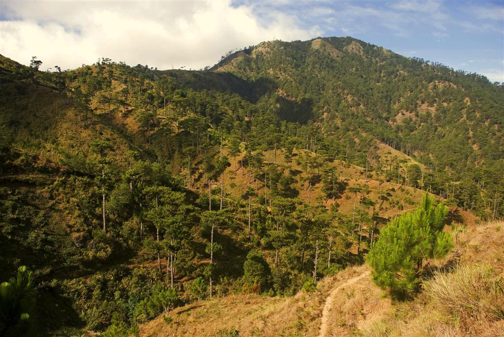 Pinus kesiya forest, Mt. Ugo, Cordillera Central, Luzon, Philippines; approx. 16°19'N 120°48'E.